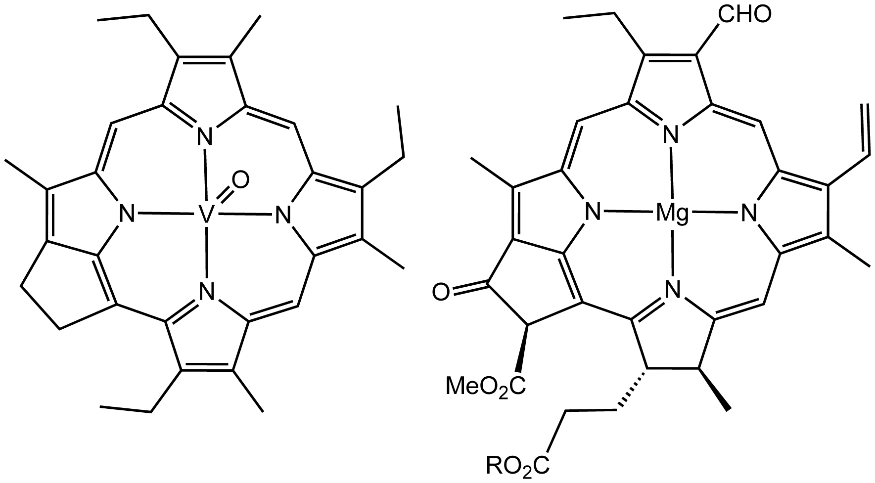 structure of Treibs extract and chlorophyll a